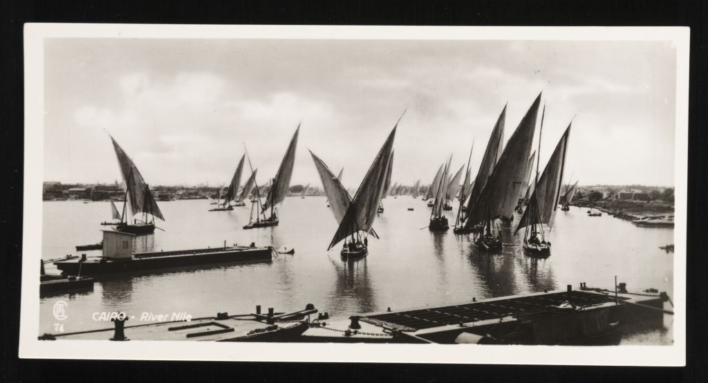 Sailboats on the Nile River